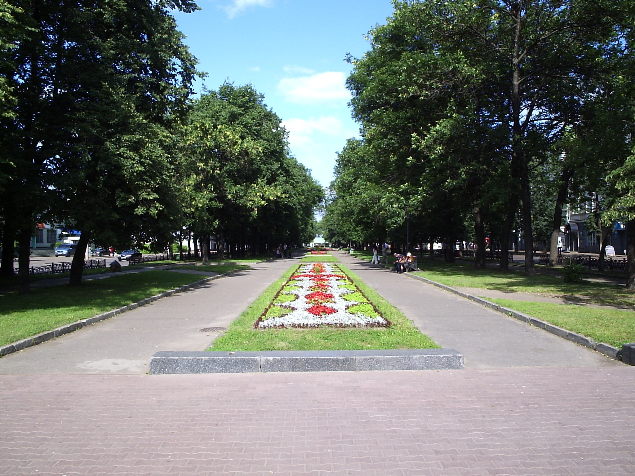 Lenin Avenue in Yaroslavl, Russia.